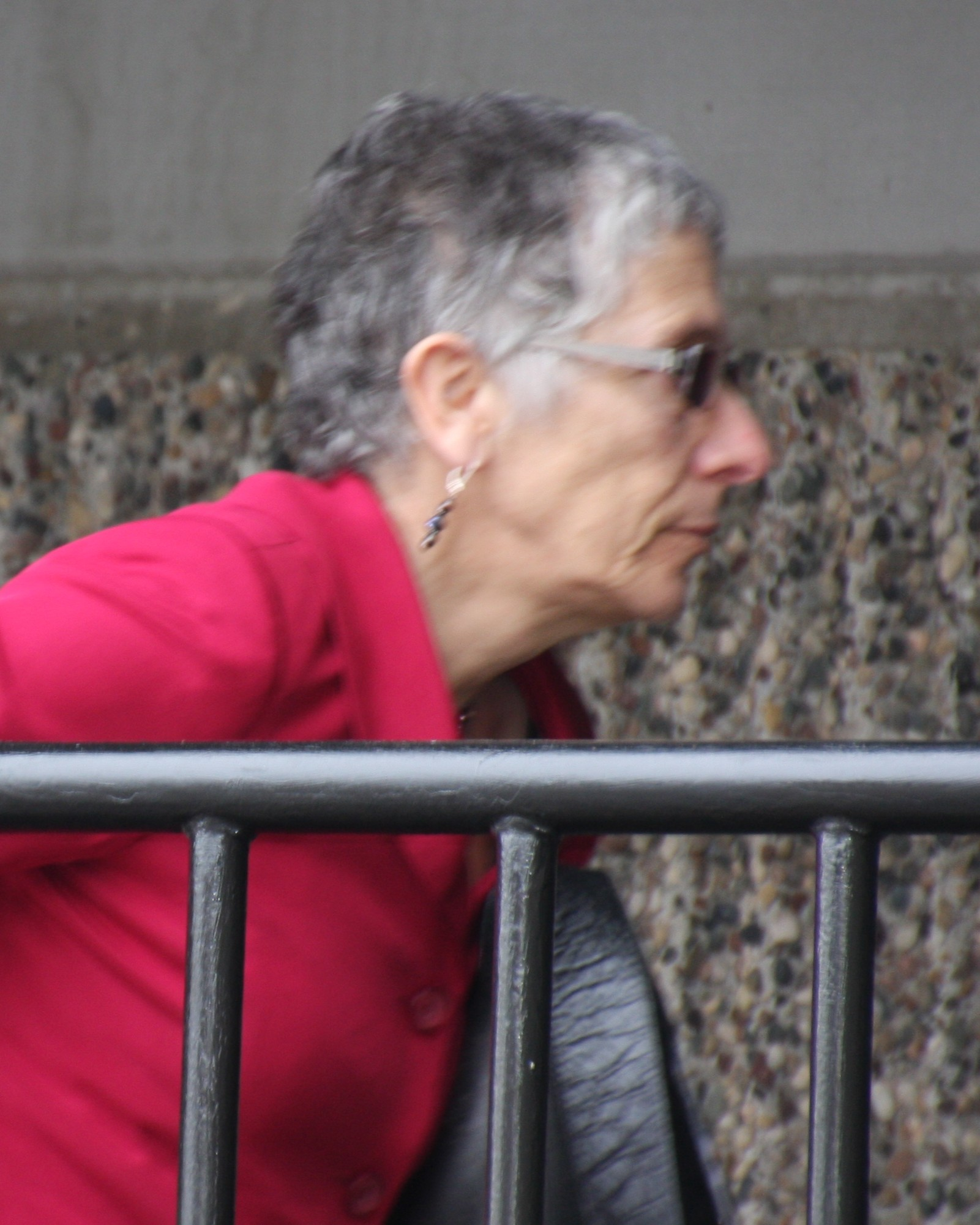 Author and sometime journalist Melanie Phillips